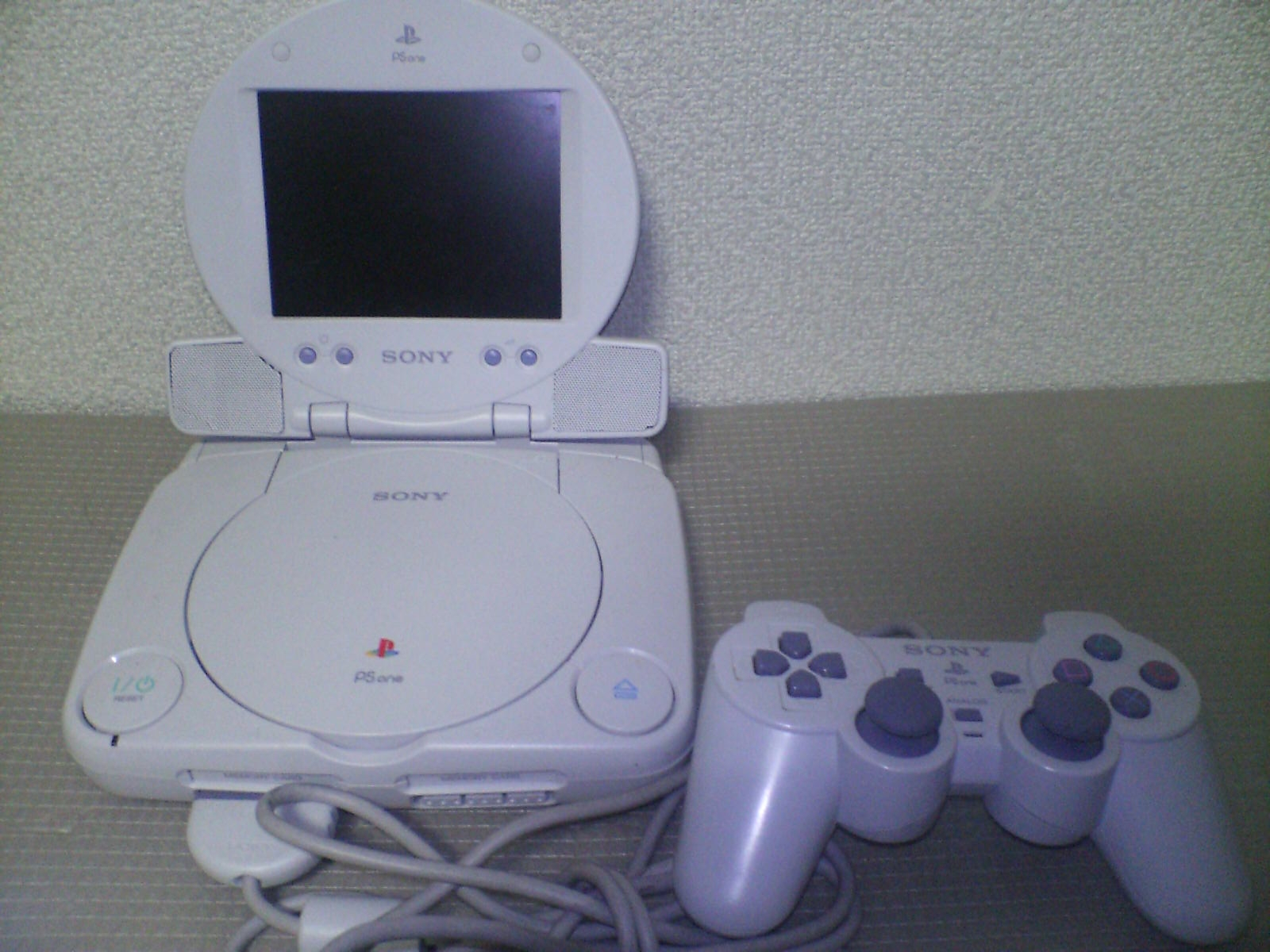 PSone console with LCD display